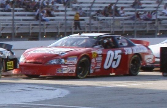 NASCAR driver Casey Atwoods Chevrolet at the 2009 Northern 250 Nationwide Series race at the Milwaukee Mile.